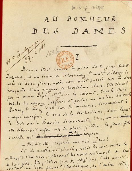 The manuscript of Au Bonheur des Dames by Émile Zola, (d. 1902)